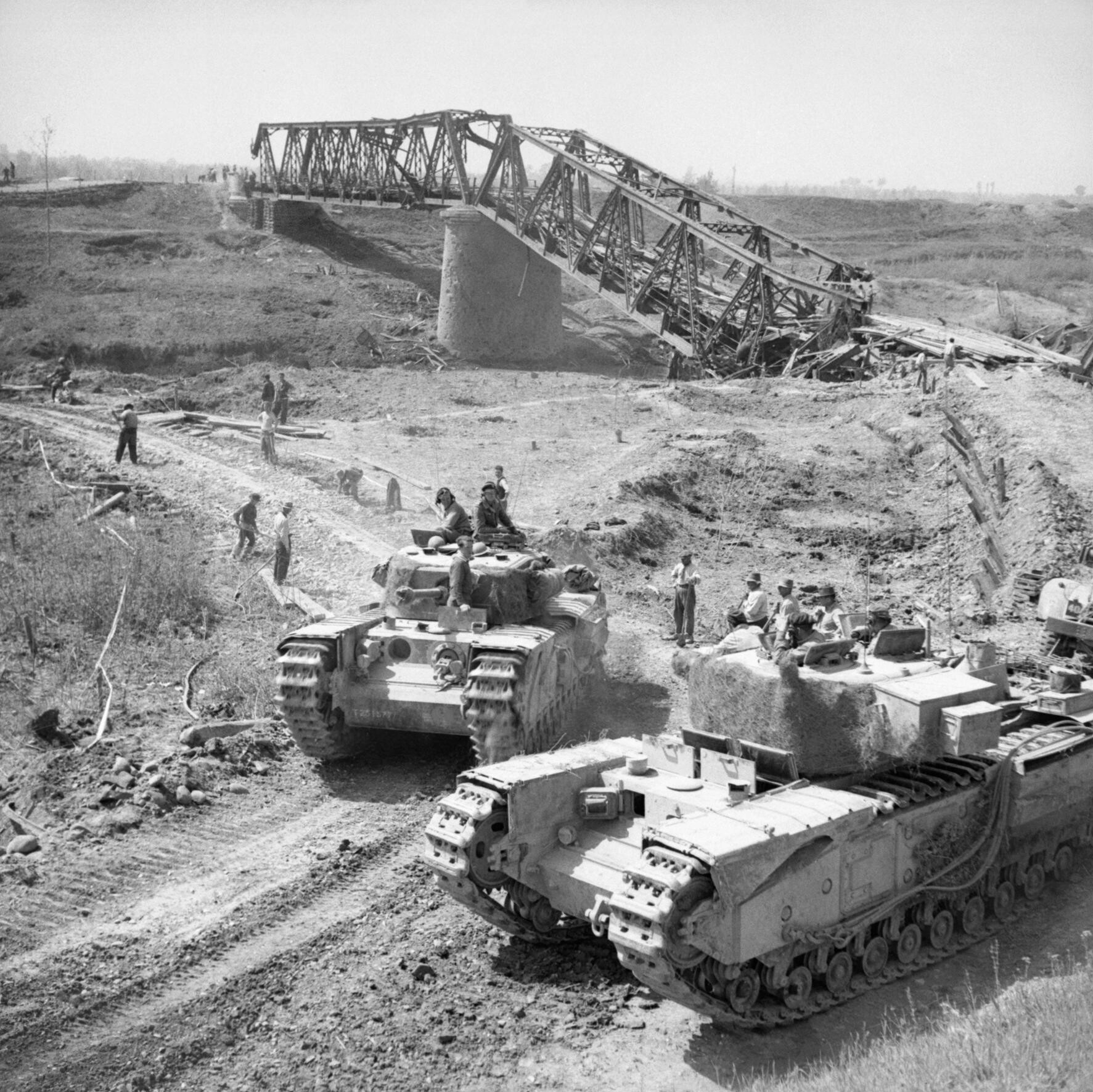 IWM caption : Churchill tanks of 21st Army Tank Brigade cross the River Reno close to a destroyed railway bridge near Bastia Umbra, Italy.